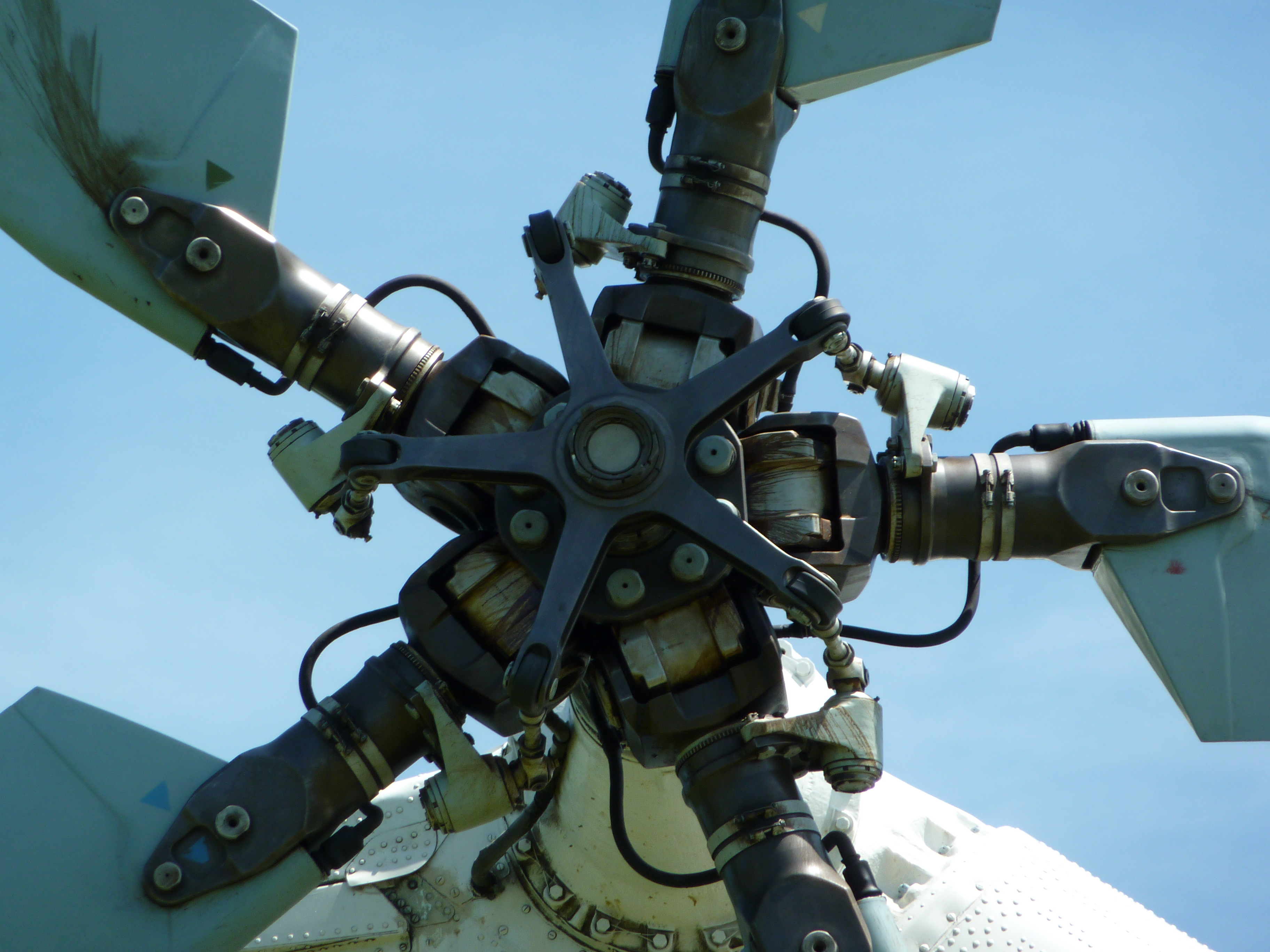 Tail rotor details of Mil_Mi_26 at Lausanne airport